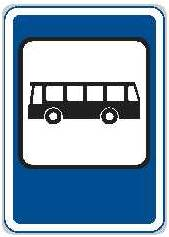 Road sign of the Czech Republic